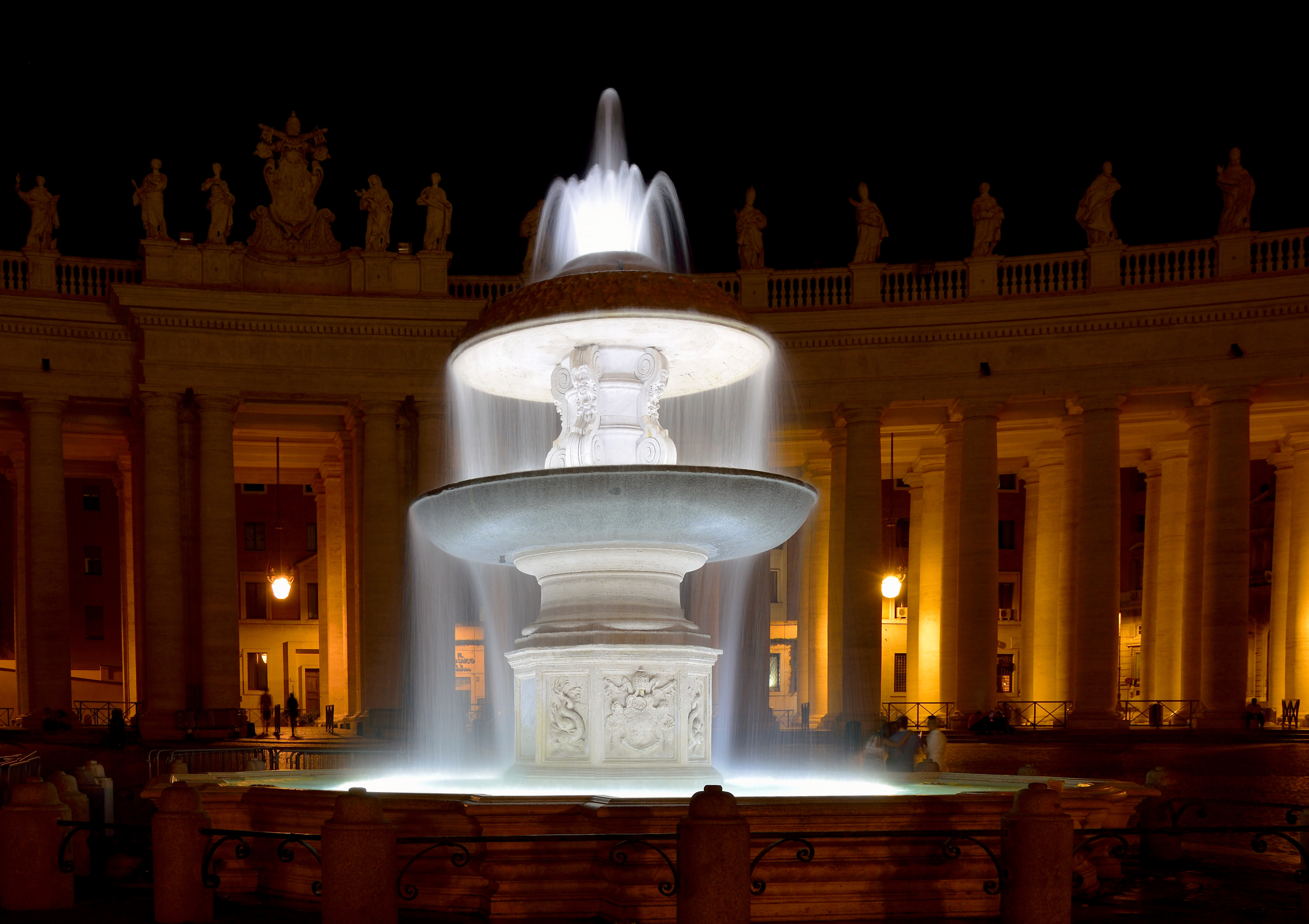 CoA of Clemens X on the "Bernini's fountain" of St. Peter's square at night